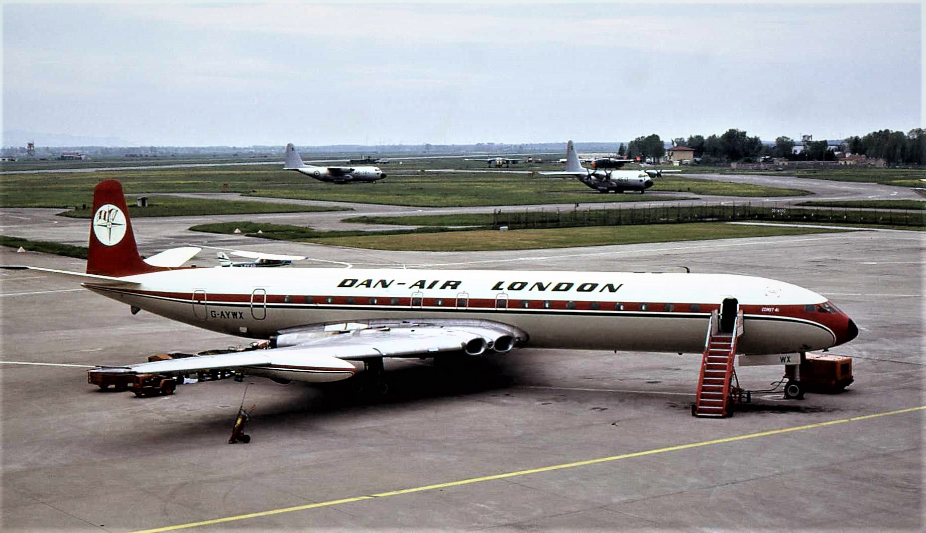 Dan-Air de Havilland Comet 4C, G-AYWX, c/n 6465. Delivered to Kuwait Airways on January 18, 1963 as 9K-ACA. Leased to MEA. Sold to Dan-Air on March 1971.